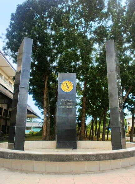 Wall of Remembrance of Central Philippine University which was built in commemoration of the university's centennial in 2005.